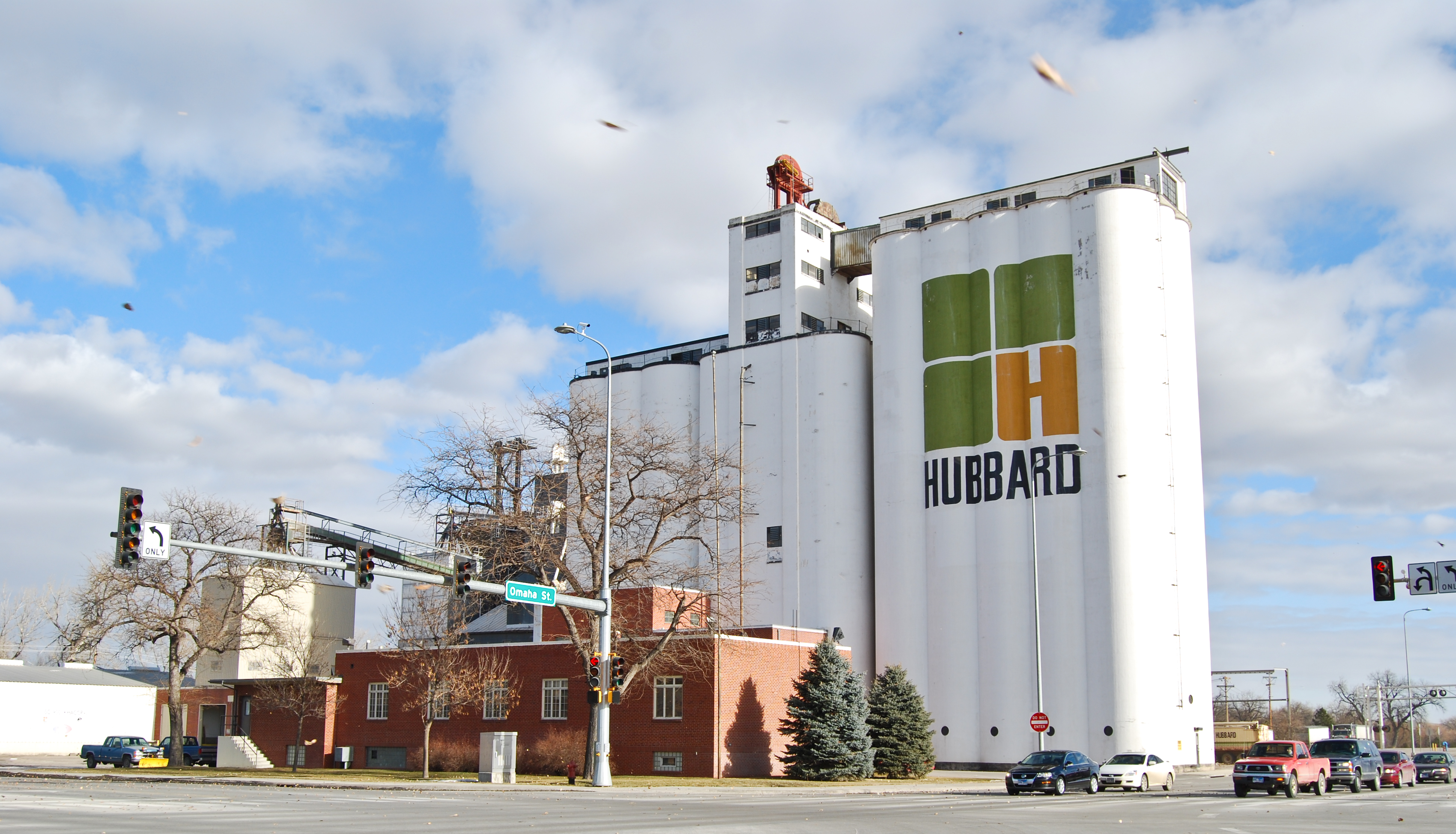 a flour mill in the middle of rapid city. the streaks in the sky are leaves - the wind was ridiculous today.